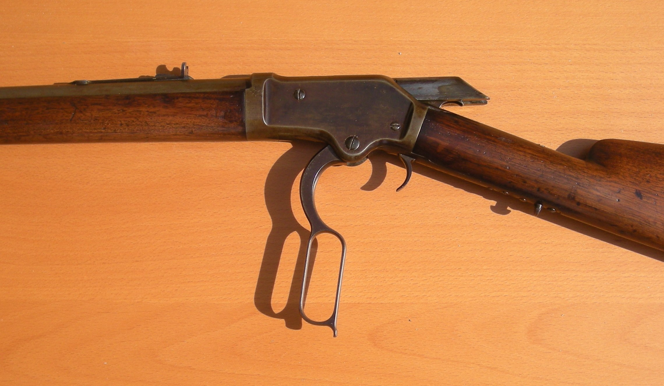 Colt Burgess rifle open breech